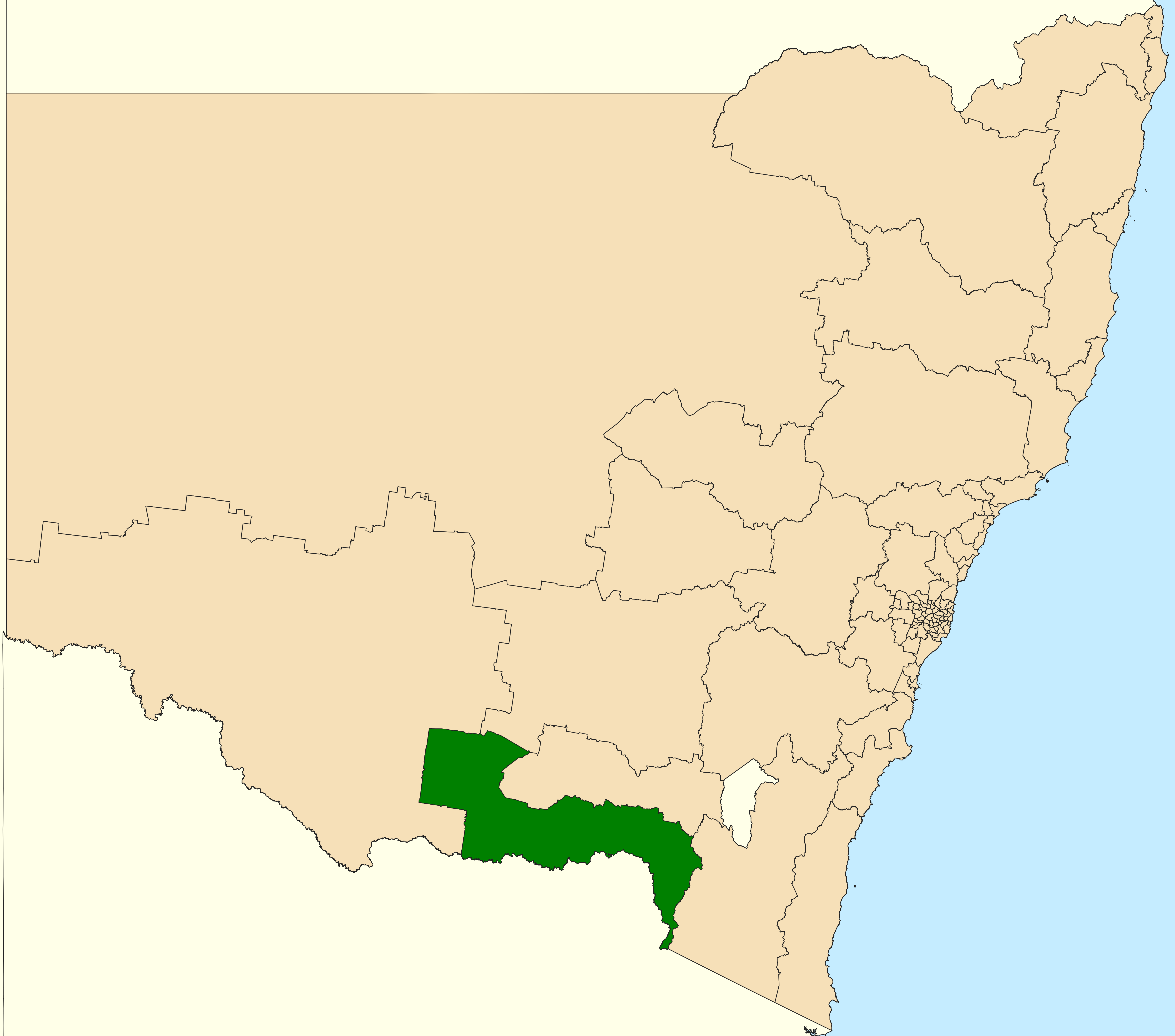 Location of the state electoral district of Albury (dark green) in New South Wales as of the 2019 New South Wales state election. Incorporates or developed using Administrative Boundaries ©PSMA Australia Limited licensed by the Commonwealth of Australia under Creative Commons Attribution 4.0 International licence (CC BY 4.0).